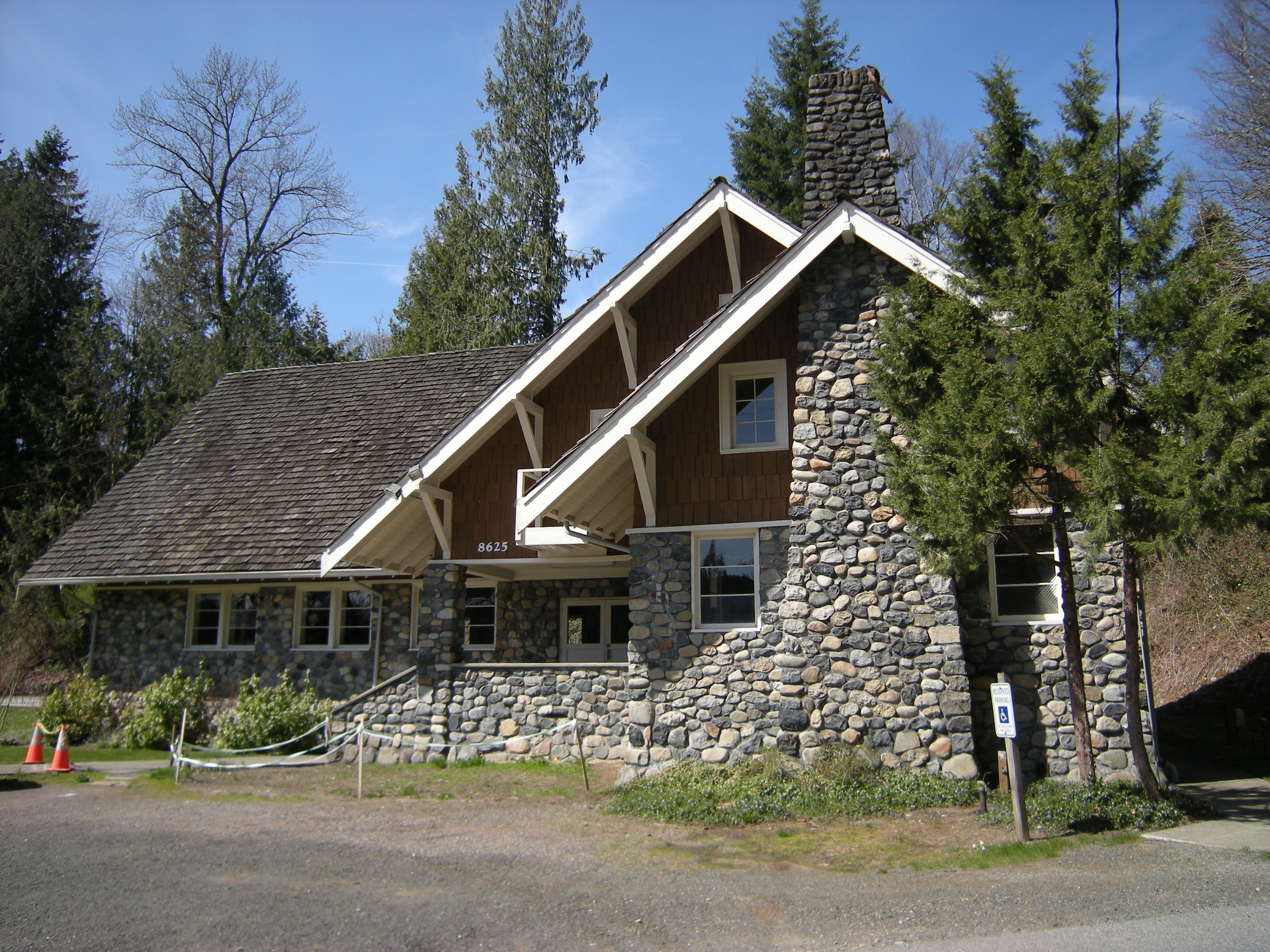 Preston Community Clubhouse, 8625 310th Ave. SE, Preston, Washington. Listed on the National Register of Historic Places.